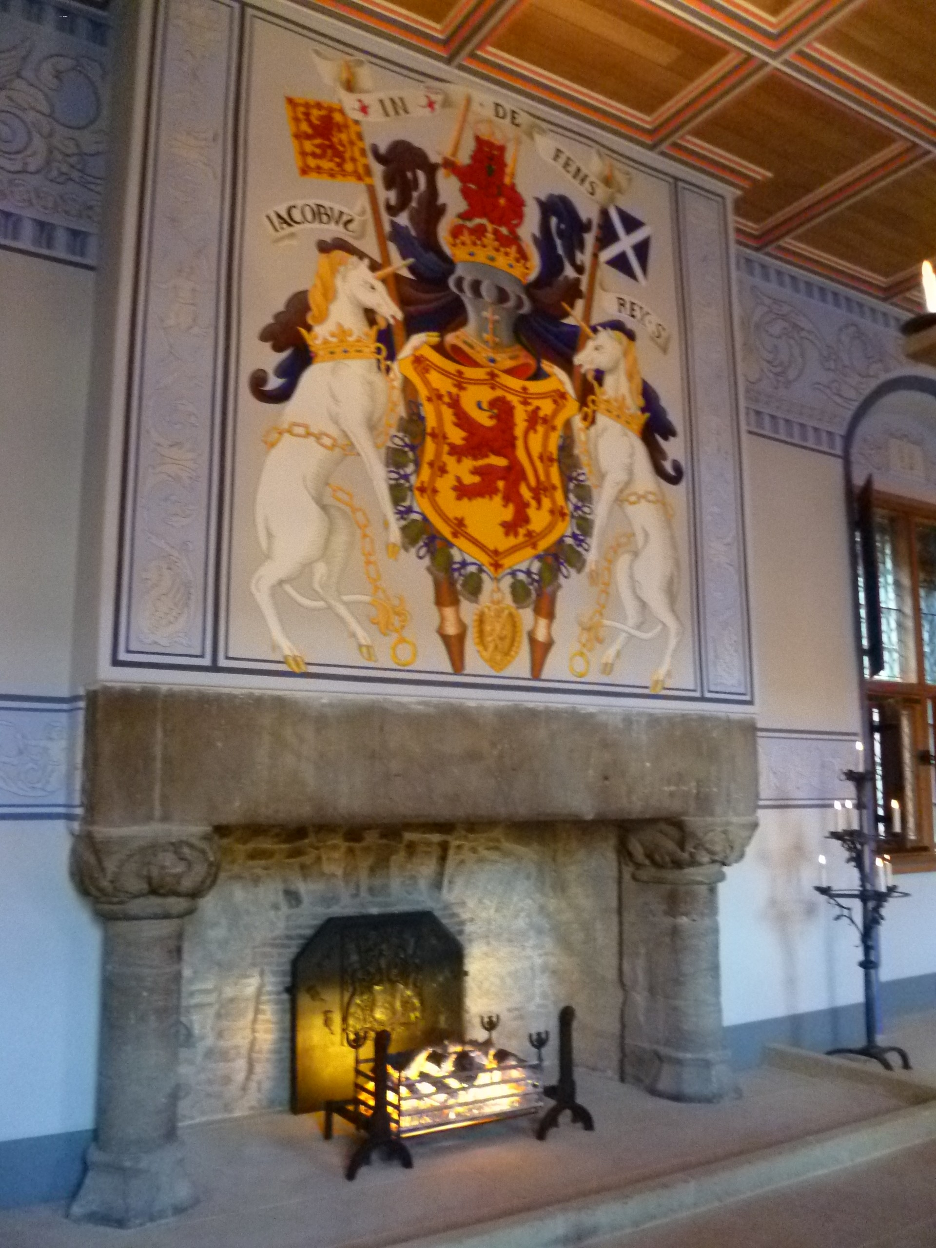 Restored fireplace in the King's Chamber of the Palace, Stirling Castle